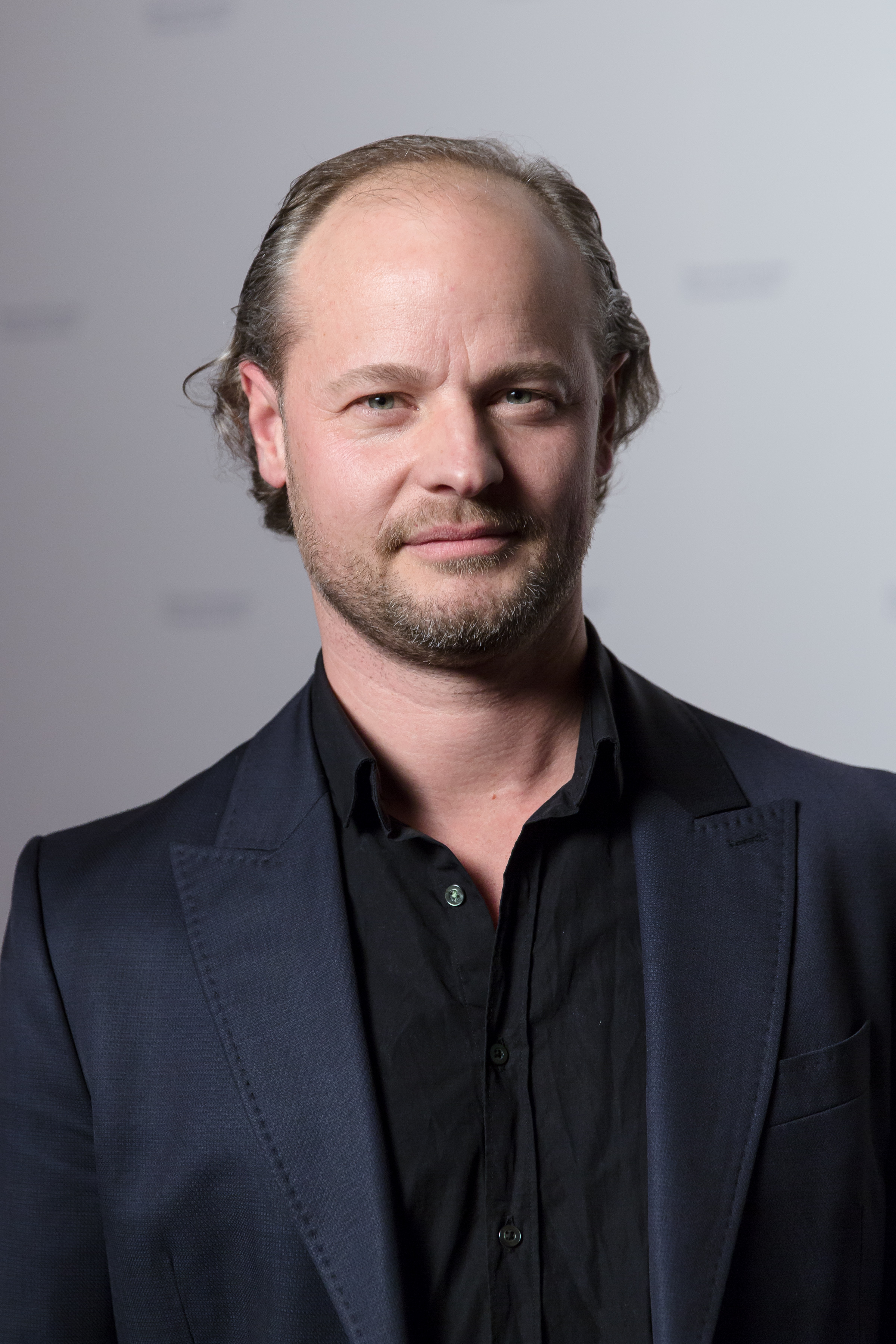 Wolfgang Frisch at the Austrian Film Awards 2016 (Grafenegg, Austria).